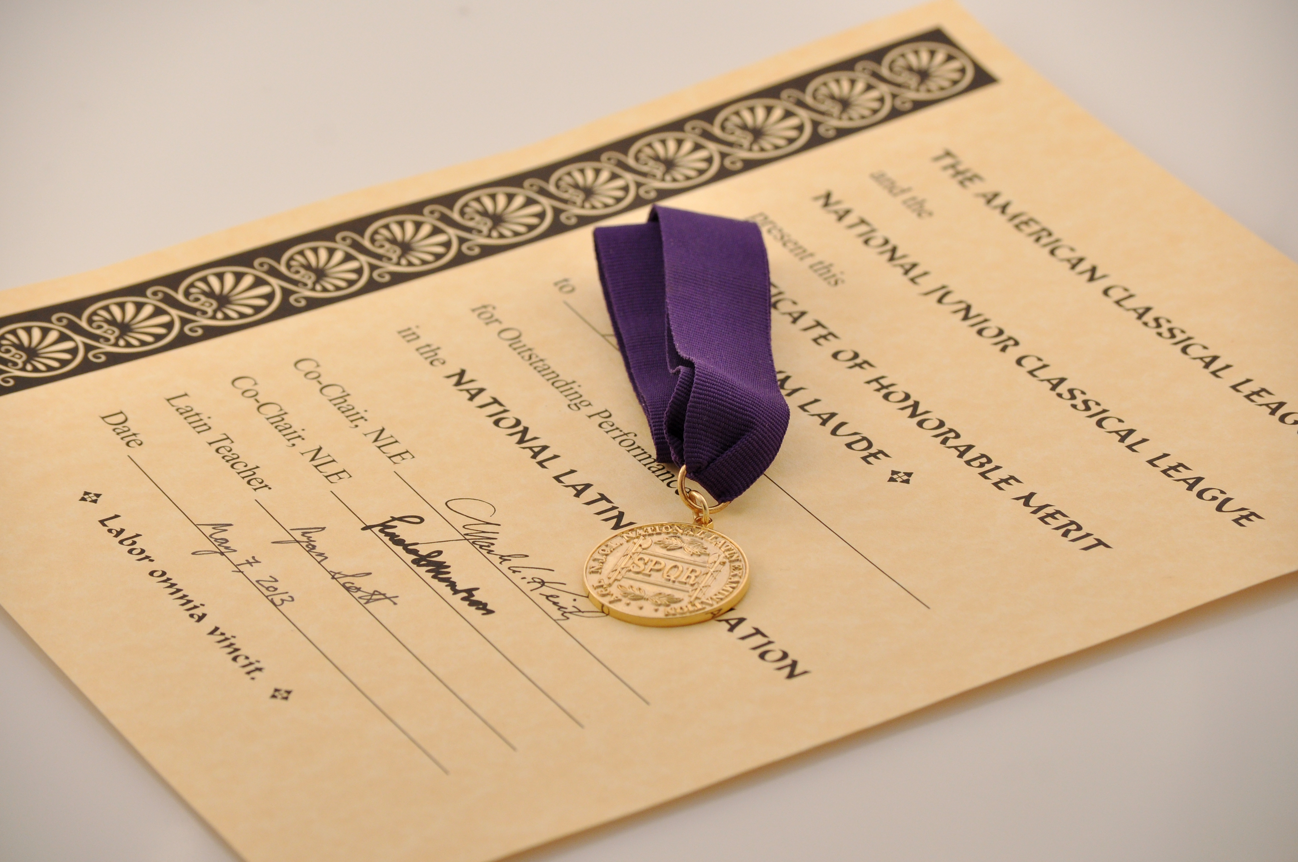 This is an image of the National Latin Exam gold awards.